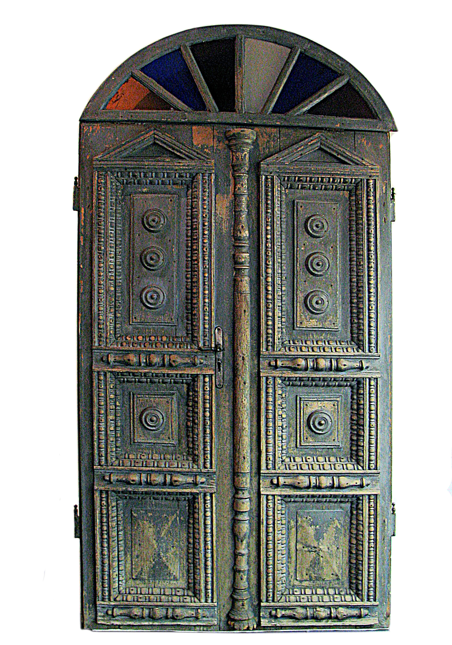 Gate, Ethnographic Museum, Belgrade, Serbia